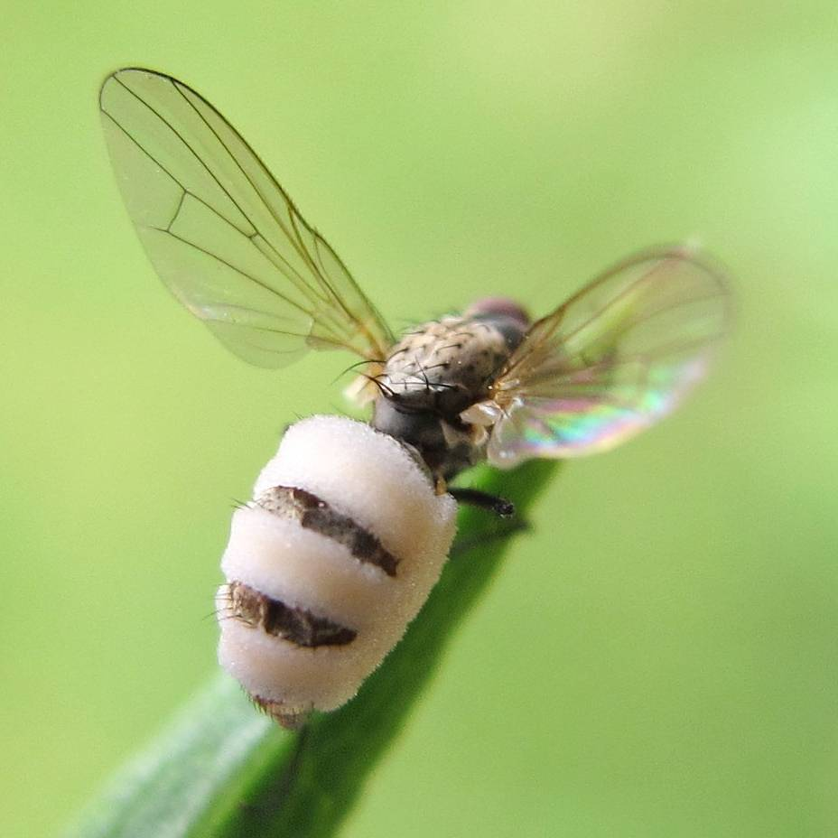 Entomophthora muscae (Cohn) Fresen. Image location: Dane Co., Wisconsin, USA Recognized by sight For more information about this, see the observation page at Mushroom Observer.